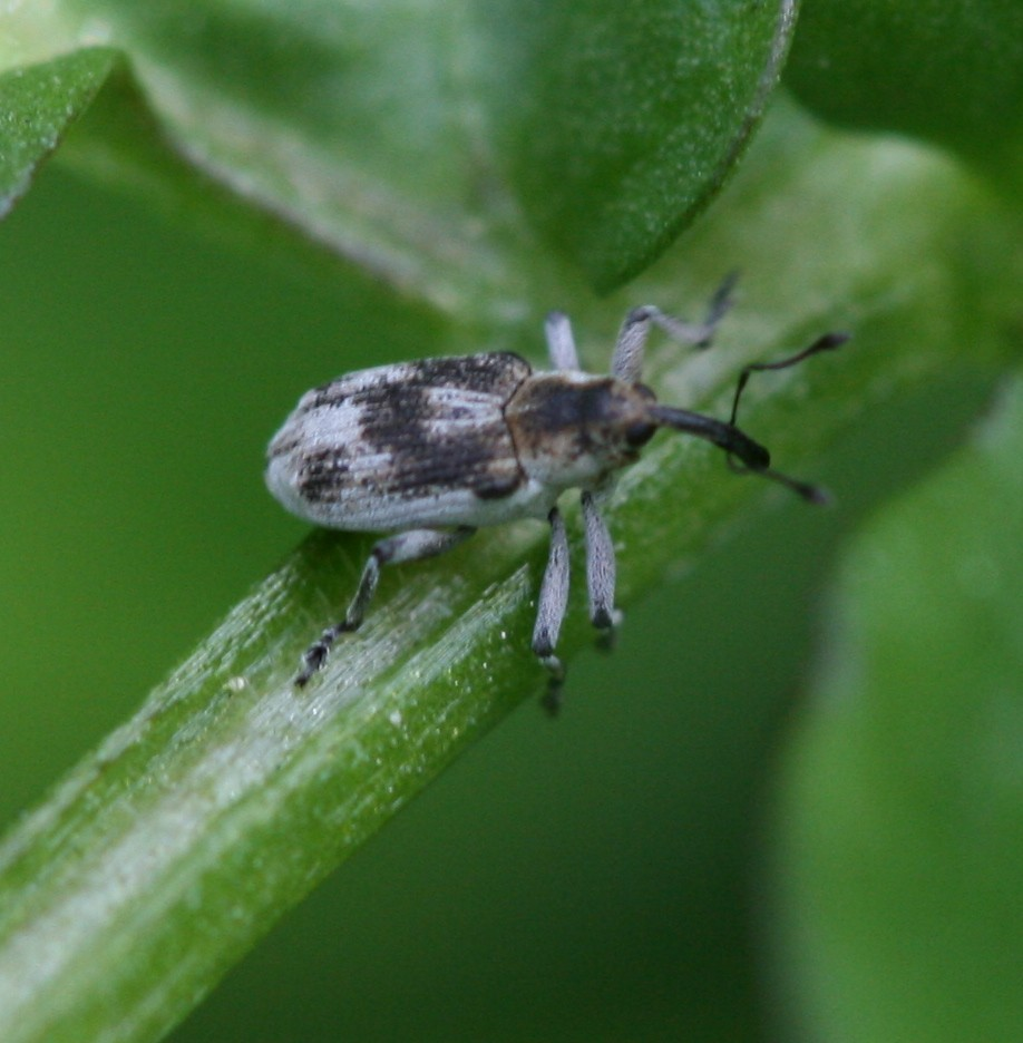 A weevil sp.